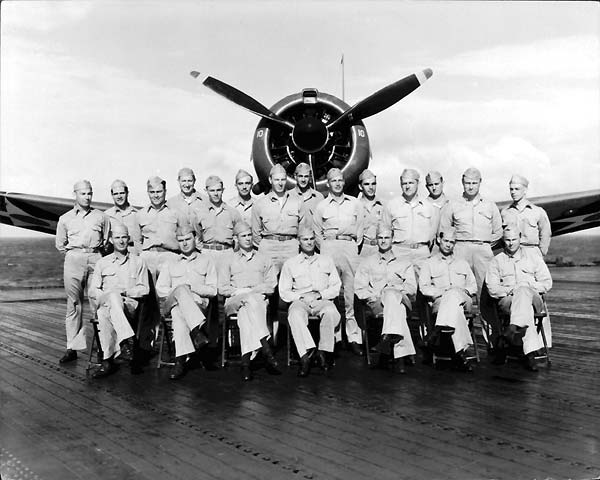 The pilots of the U.S. Navy Bombing Squadron Six (VB-6) aboard the aircraft carrier USS Enterprise in January 1942 in front of one of their Douglas SBD-2 Dauntless dive bombers. The pilots were: Front row (l-r): Lt. Harvey P. Lanham, Lt. Lloyd A. Smith, Lt. Richard H. Best, LtCdr. Wlliam Hollingsworth (CO), Lt. Blitch, Lt. Joe R. Penland, Lt. McCauley Middle row: Lt.(jg) Check, ENS Norman F. Vandiver, ENS Tony F. Schneider, Lt.(jg) Edwin J. Kroeger, Lt.(jg) Edward L. Anderson, Lt.(jg) Jon J. Van Buren, ENS Walters, ENS Wilbur E. Roberts Back row: ENS John Doherty, ENS Arthur L. Rausch, ENS Frederick T. Weber, ENS Delbert W. Halsey, ENS Holcomb, ENS Ramsey